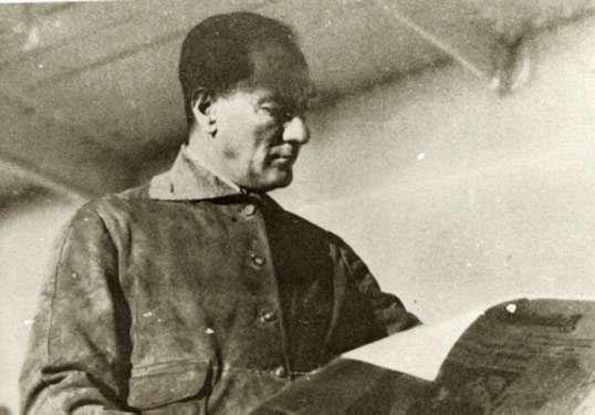 Kemal Atatürk (or alternatively written as Kamâl Atatürk, Mustafa Kemal Pasha until 1934, commonly referred to as Mustafa Kemal Atatürk; 1881 – 10 November 1938) was a Turkish field marshal, revolutionary statesman, author, and the founding father of the Republic of Turkey, serving as its first President from 1923 until his death in 1938. He undertook sweeping progressive reforms, which modernized Turkey into a secular, industrial nation. Ideologically a secularist and nationalist, his policies and theories became known as Kemalism. Due to his military and political accomplishments, Atatürk is regarded as one of the most important political leaders of the 20th century.